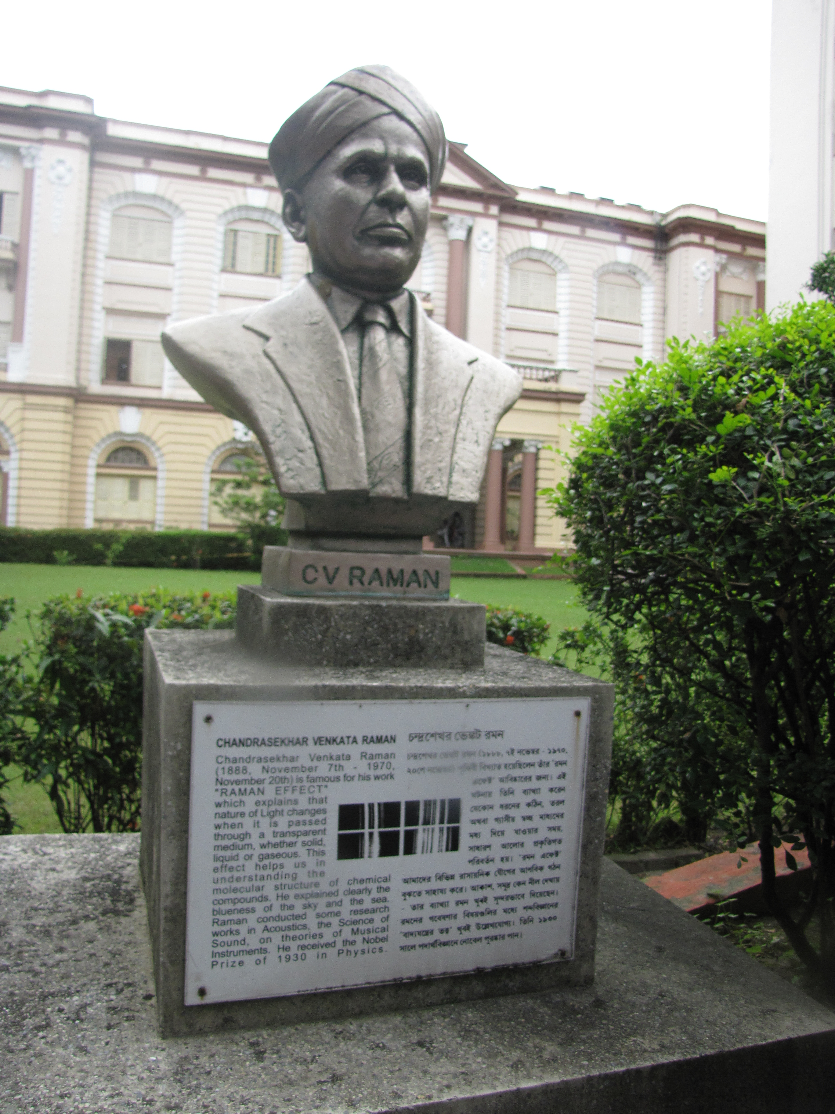 Bust of Chandrasekhara Venkata Raman (1888-1970), an Indian physicist, which is placed in the garden ofBirla Industrial & Technological Museum. His ground breaking work in the field of light scattering, now termed the Raman effect, earned him the 1930 Nobel Prize for Physics, and the Bharat Ratna in 1954.